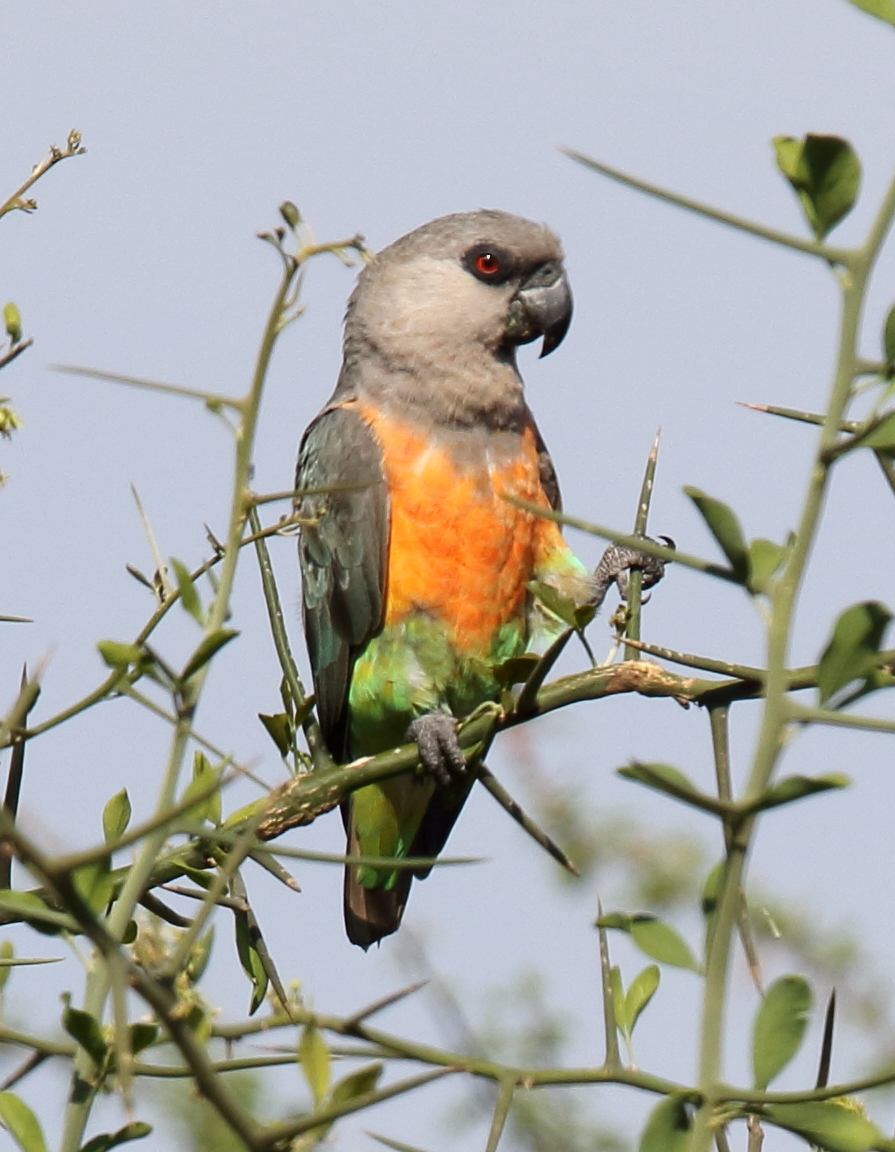 Red-bellied Parrot (Poicephalus rufiventris)